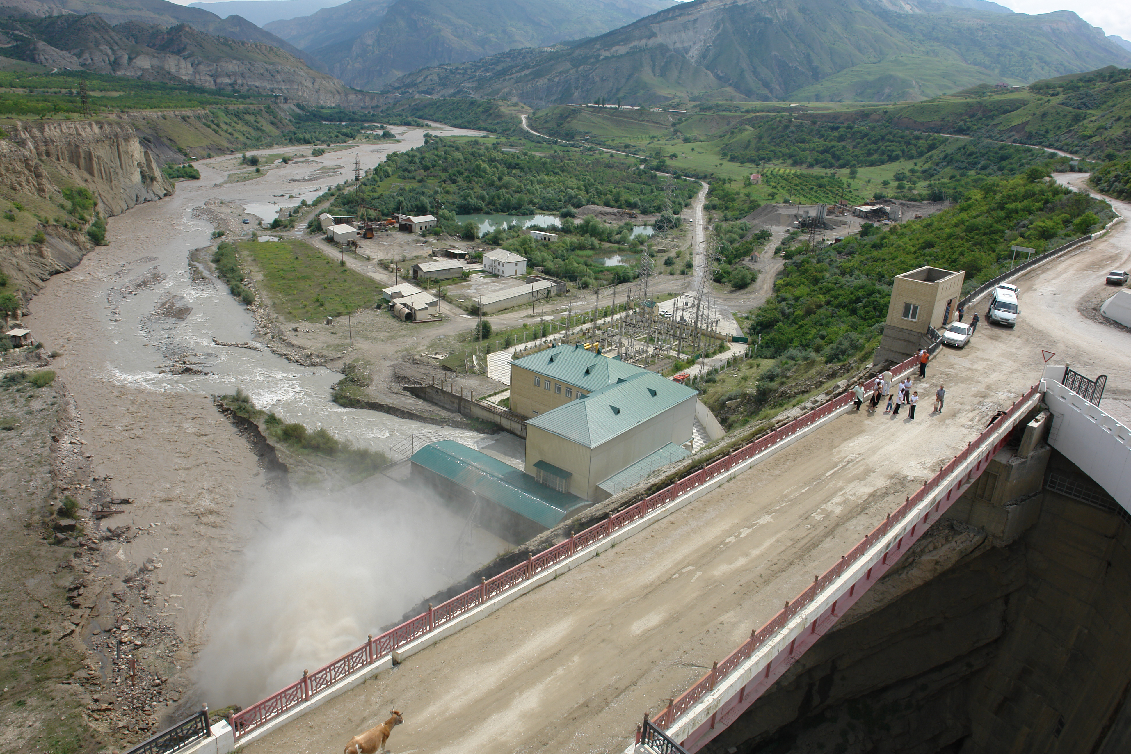 Gunib HPP